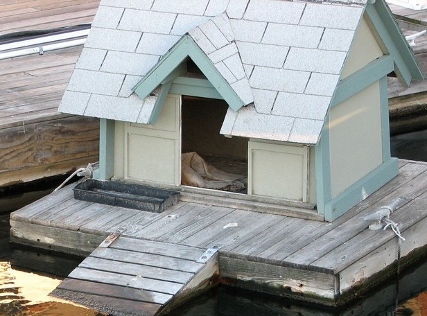 Floating dog house at dock, Doghouse1.jpg, Cambridge, Massachusetts.